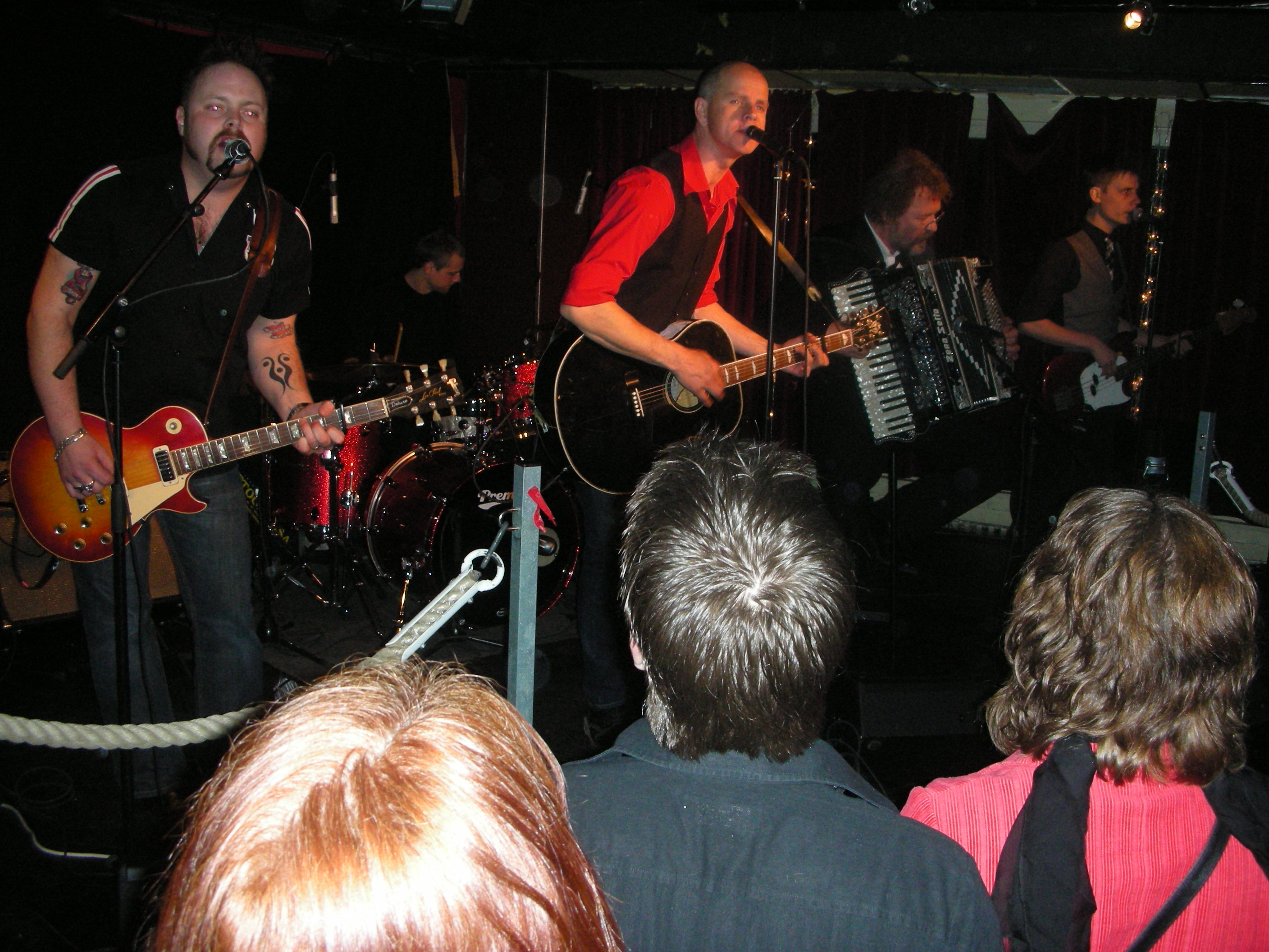 Perssons Pack during a concert in Örebro, Sweden.